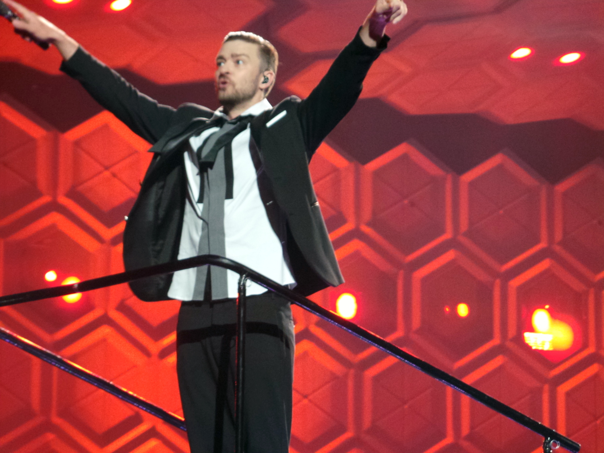 The American musician Justin Timberlake during The 2020 Experience World Tour at the Time Warner Cable Arena in Charlotte, NC, on July 12, 2014.